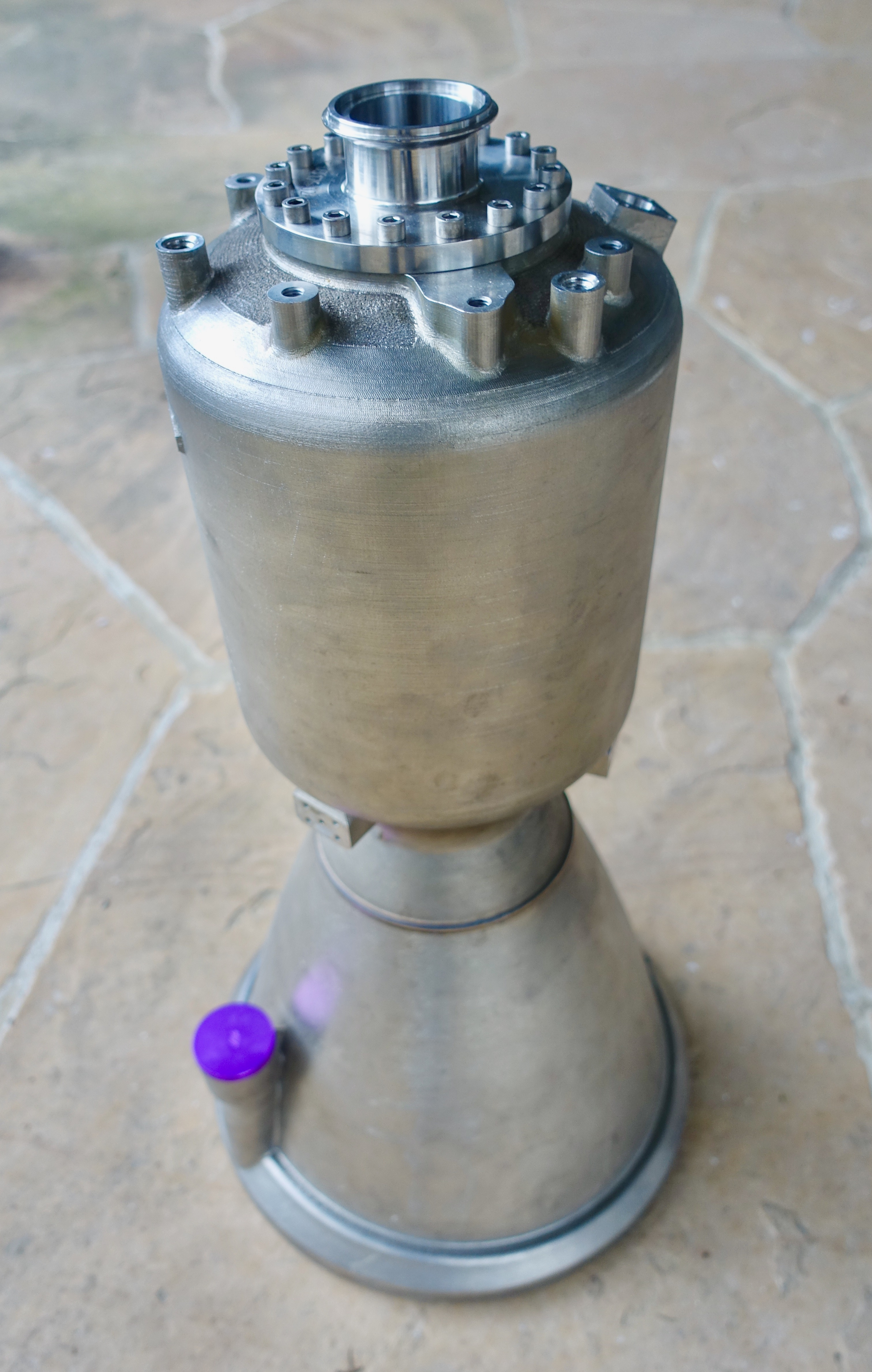 This is the current design for the Astra Rocket. This Serial Number 1 was tested horizontally at the Alameda test facility. 3D-Printed in the Inconel superalloy with integrated regenerative cooling channels running up the bell and combustion chamber (liquid fuel runs in the purple cap, and around the tapered bottom ring with equal pressure up a multitude of channels running to the top before looping back to the fuel injectors at the top. This keeps the engine from melting from the heat of combustion with no insulating layers needed inside. It is fueled by Kerosene and liquid oxygen (LOX). The first stage of Astra is powered by five Delphin engines of 28 kN thrust each driven by battery-powered pumps